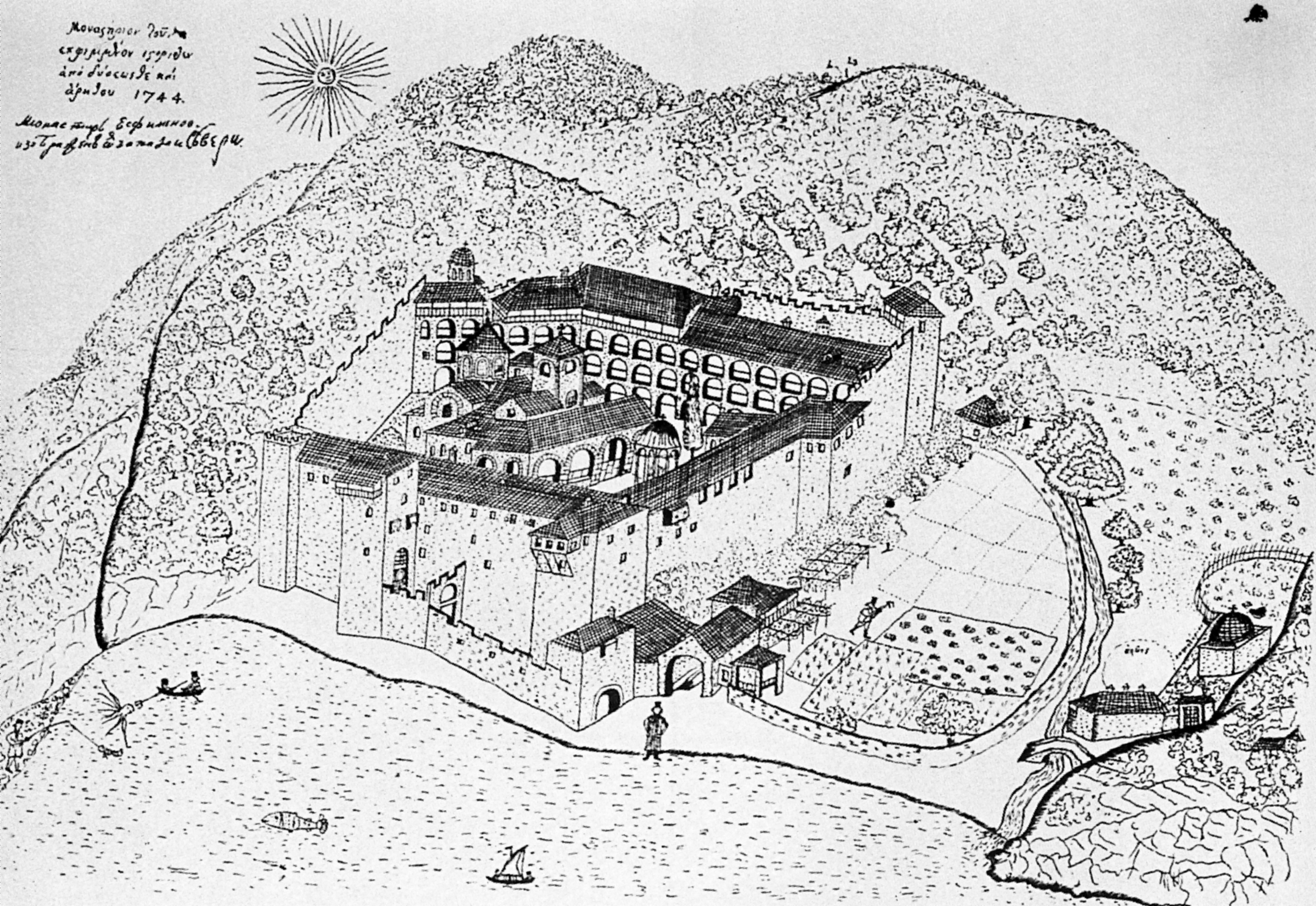 Sketch of Esphigmenou monastery, Athos, by Vasilii Grigorovich-Barskii, 1744